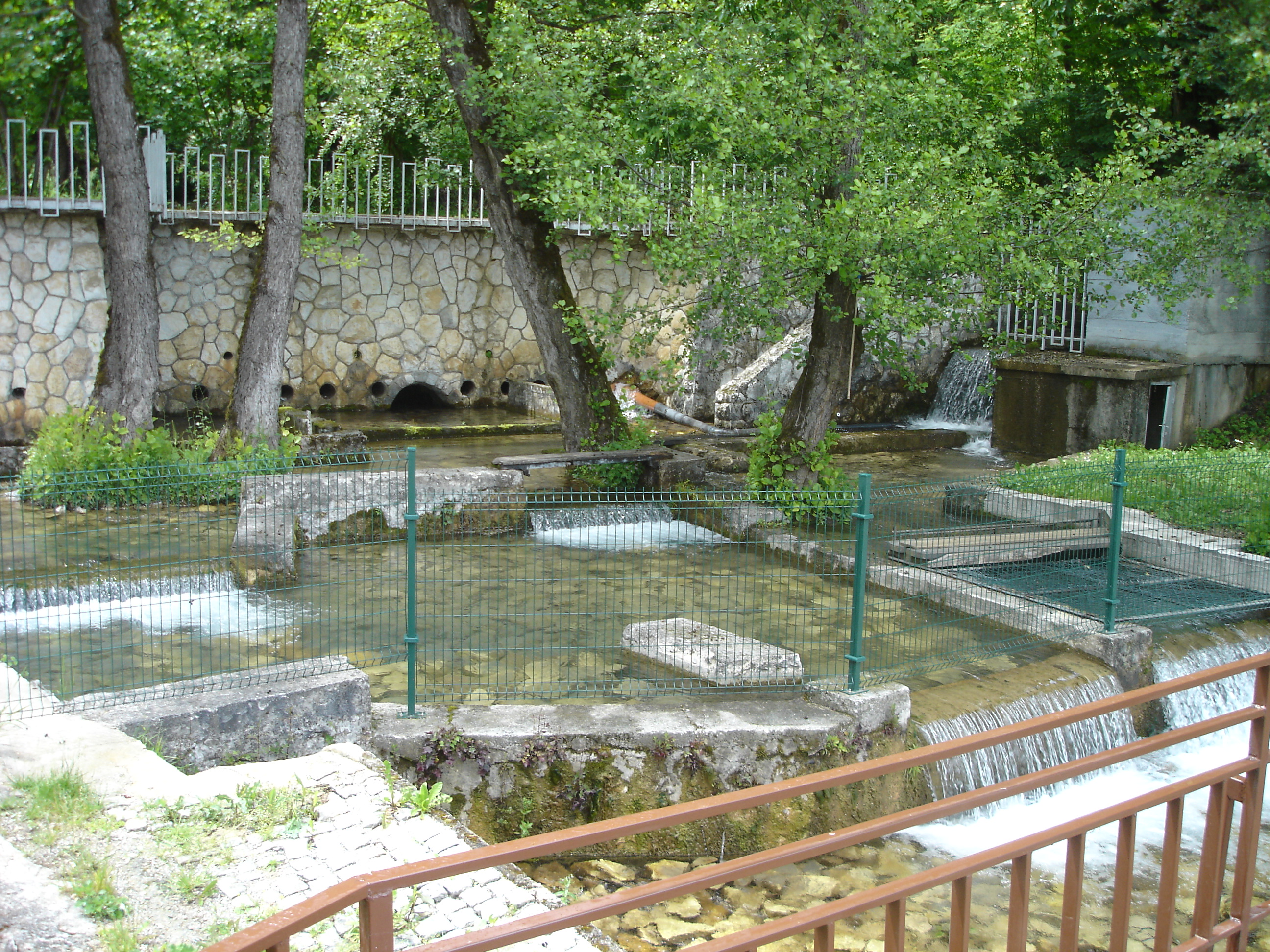 Spings of Vardar river in Vrutok, Macedonia